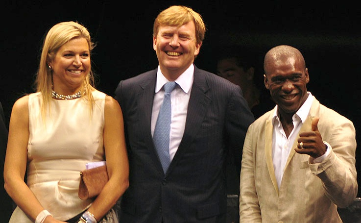 Queen Máxima, Willem-Alexander of the Netherlands & Clarence Seedorf.